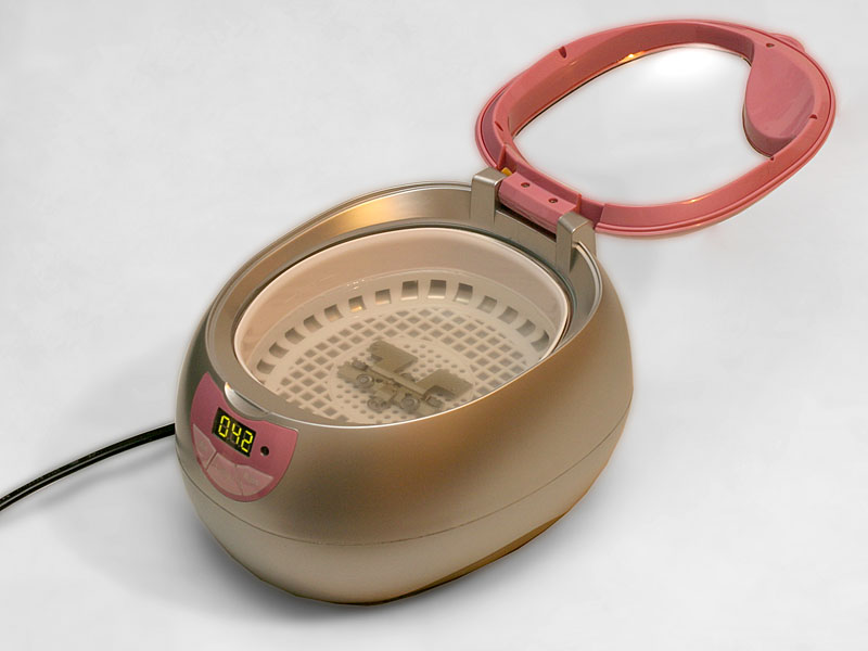 Image shows an ultrasonic cleaner.